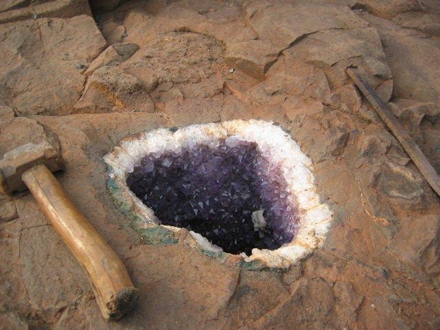 Amethyst-Geode in the parent rock